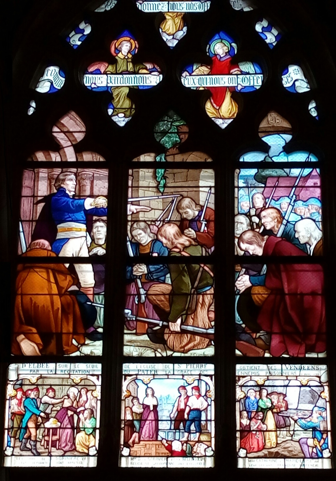 Lower part of the stained glass: three scenes on the stopping at the spar and the execution in 1794 of the ladies Du Verdier